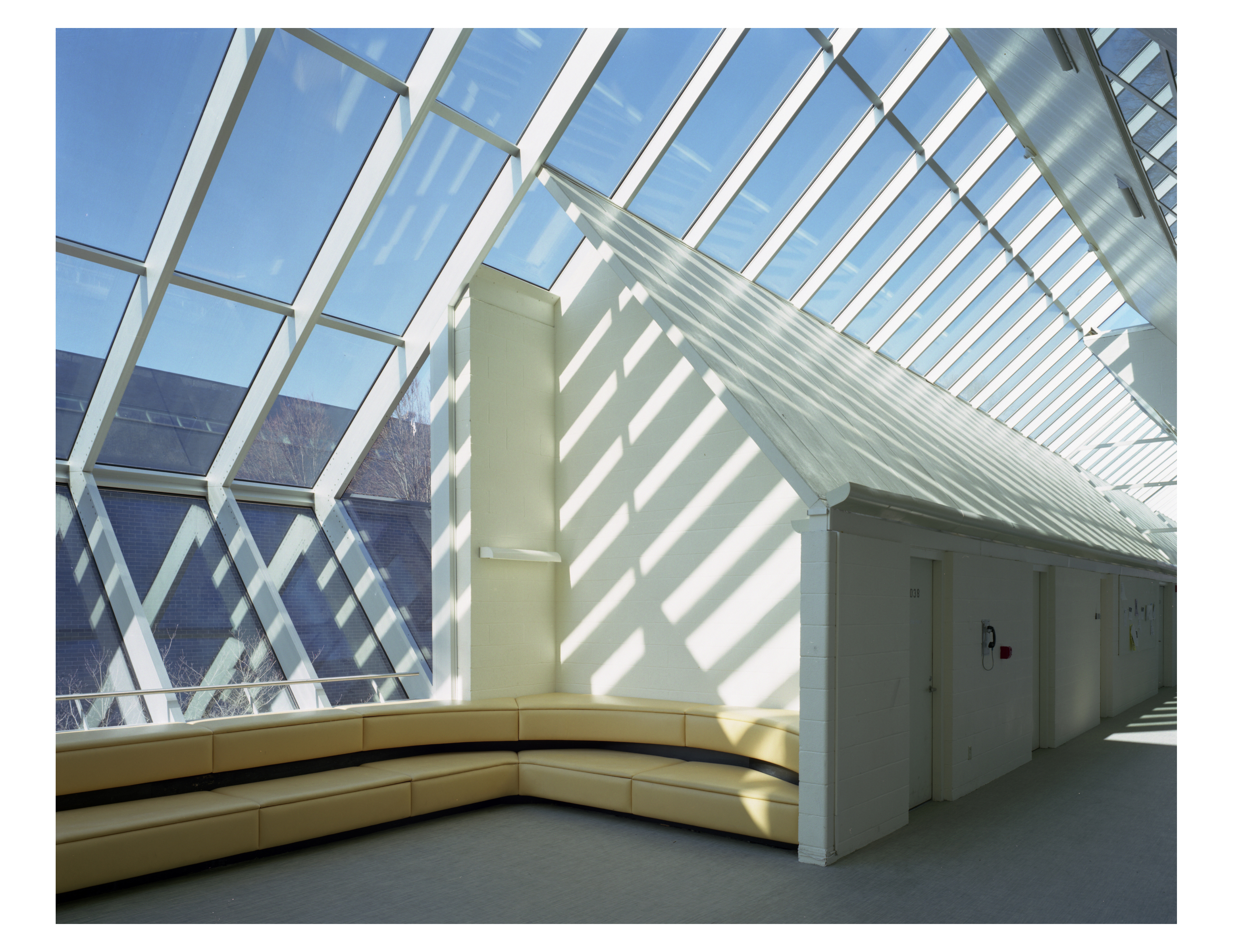 Purchase College Dance Building